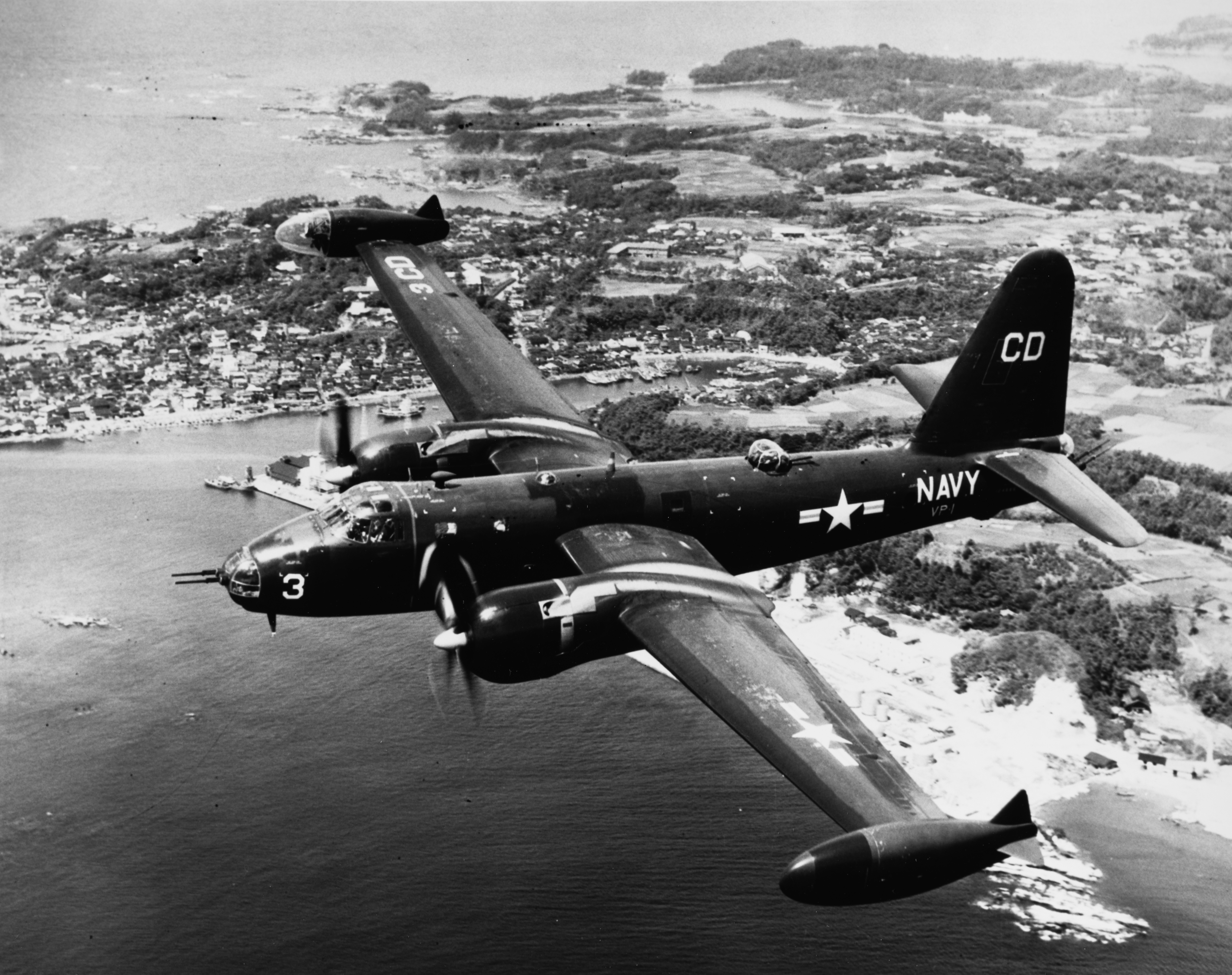 A U.S. Navy Lockheed P2V-5 Neptune (BuNo 124886) of Patrol Squadron VP-1 "Fleet's Finest" over Japan in 1952. This aircraft was lost on 2 January 1953.